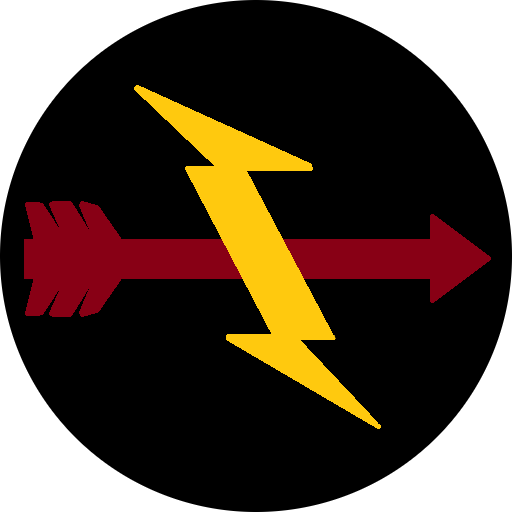 This is the Div insign of 24th InfantryDivision of Bangladesh Army.